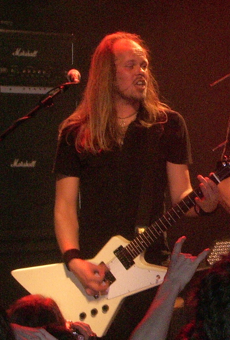 Dirk Sauer performing with Edguy at Islington Academy in London, 10th January 2009